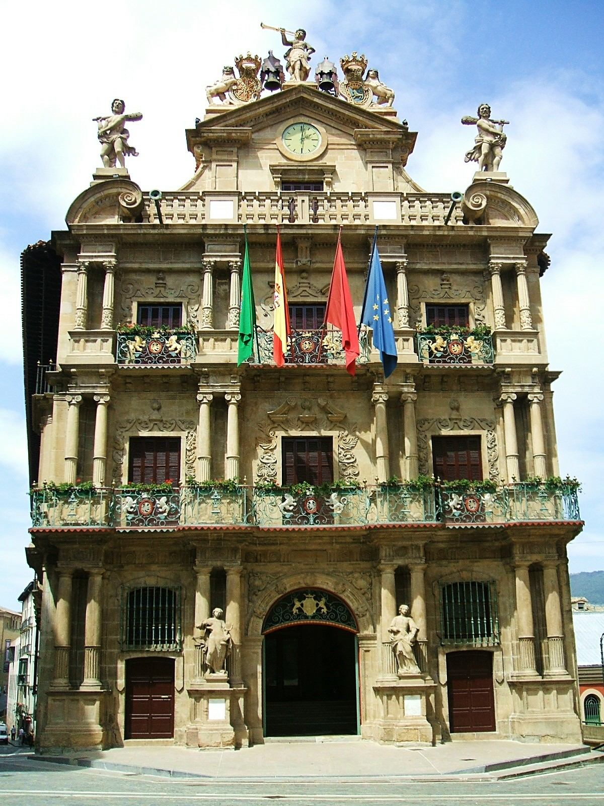 Ayuntamiento de Pamplona (España)